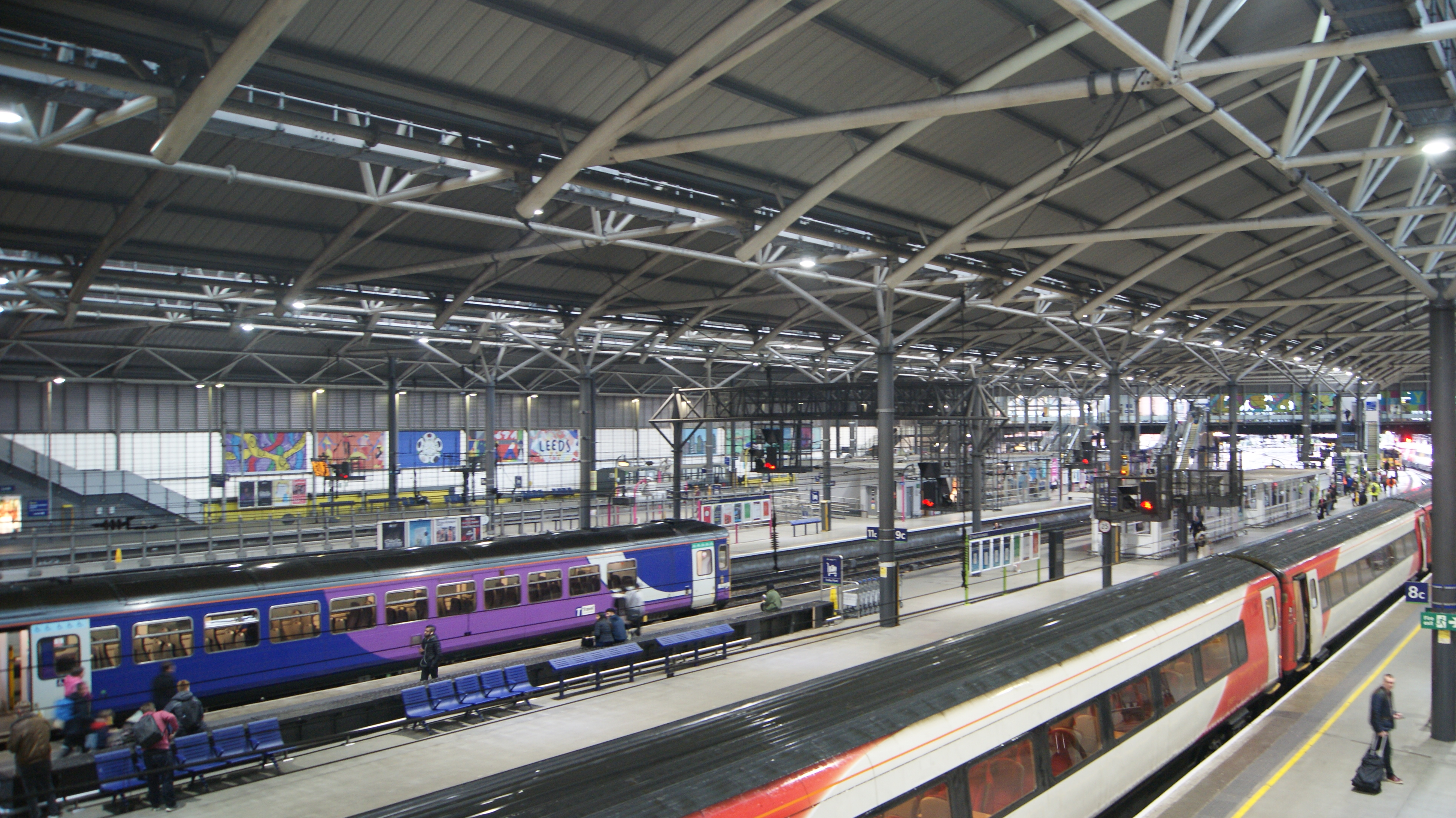 Platform hall, Leeds City Station, West Yorkshire. Taken on the evening of Monday the 10th of June 2019.